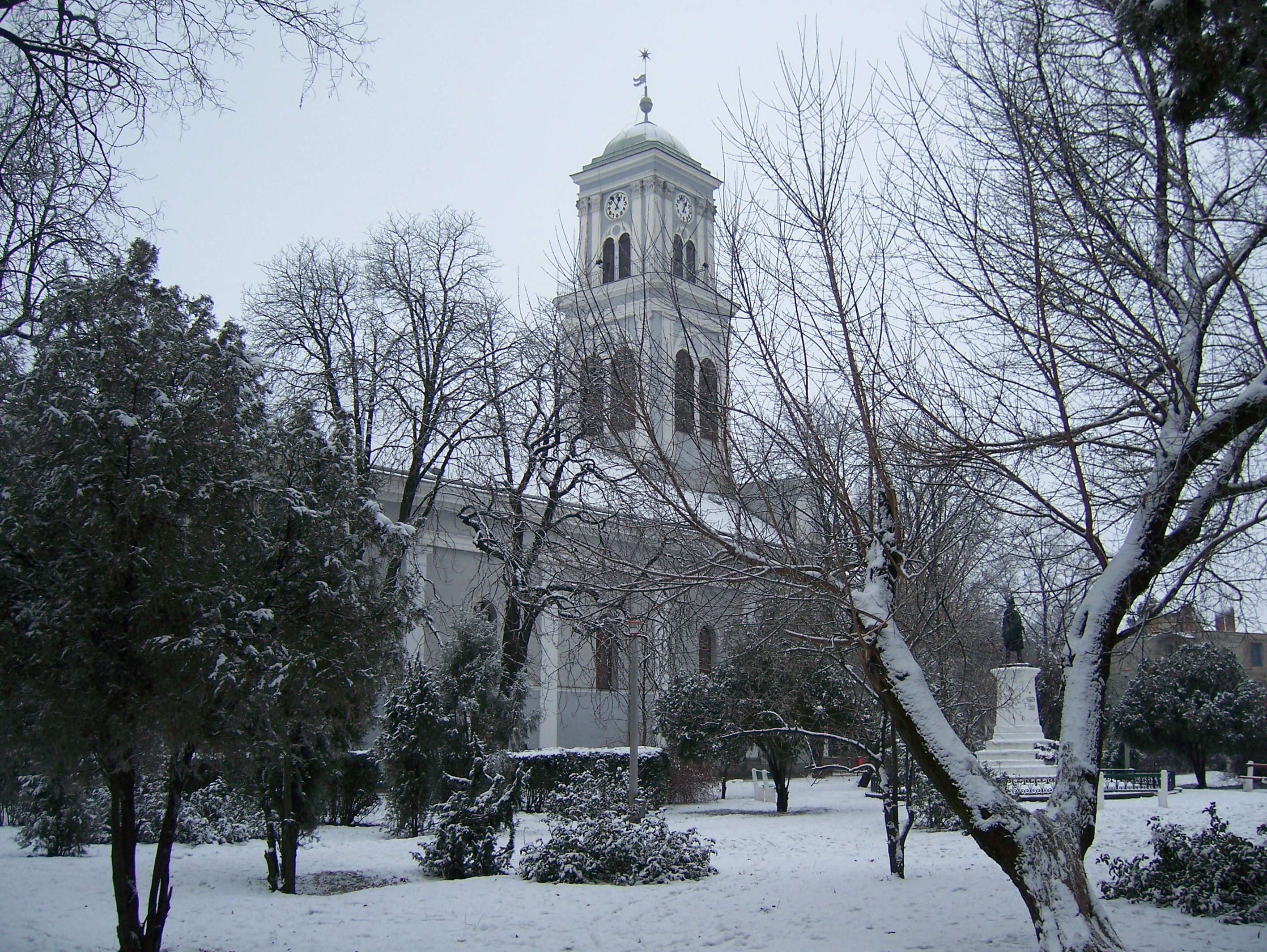 Reformed church - Salonta, Romania 02